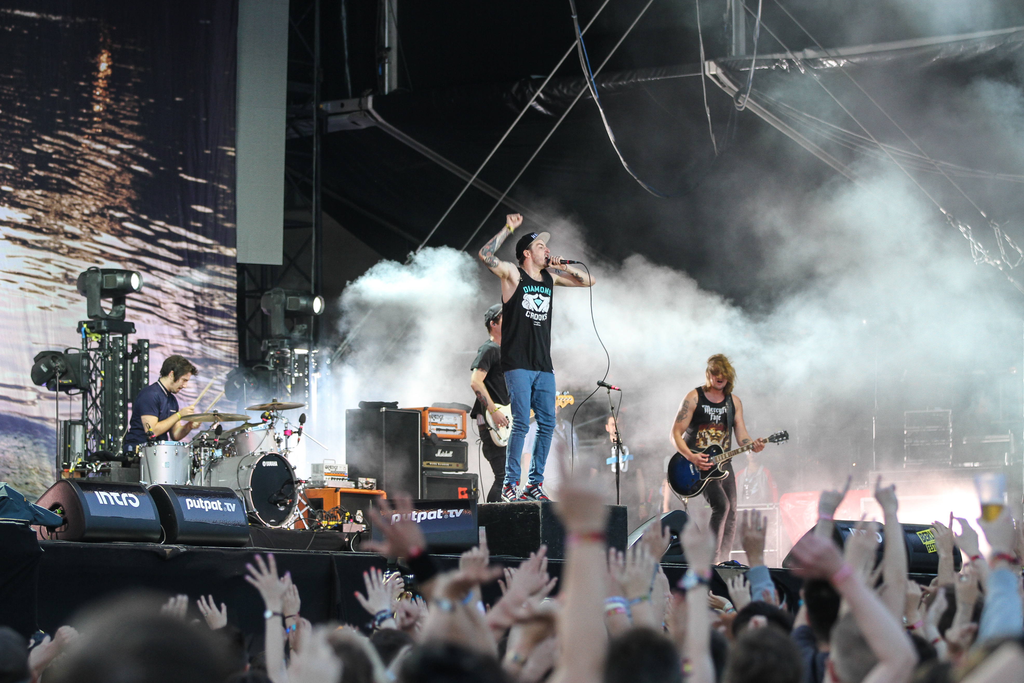 Casper performing at Berlin Festival 2013